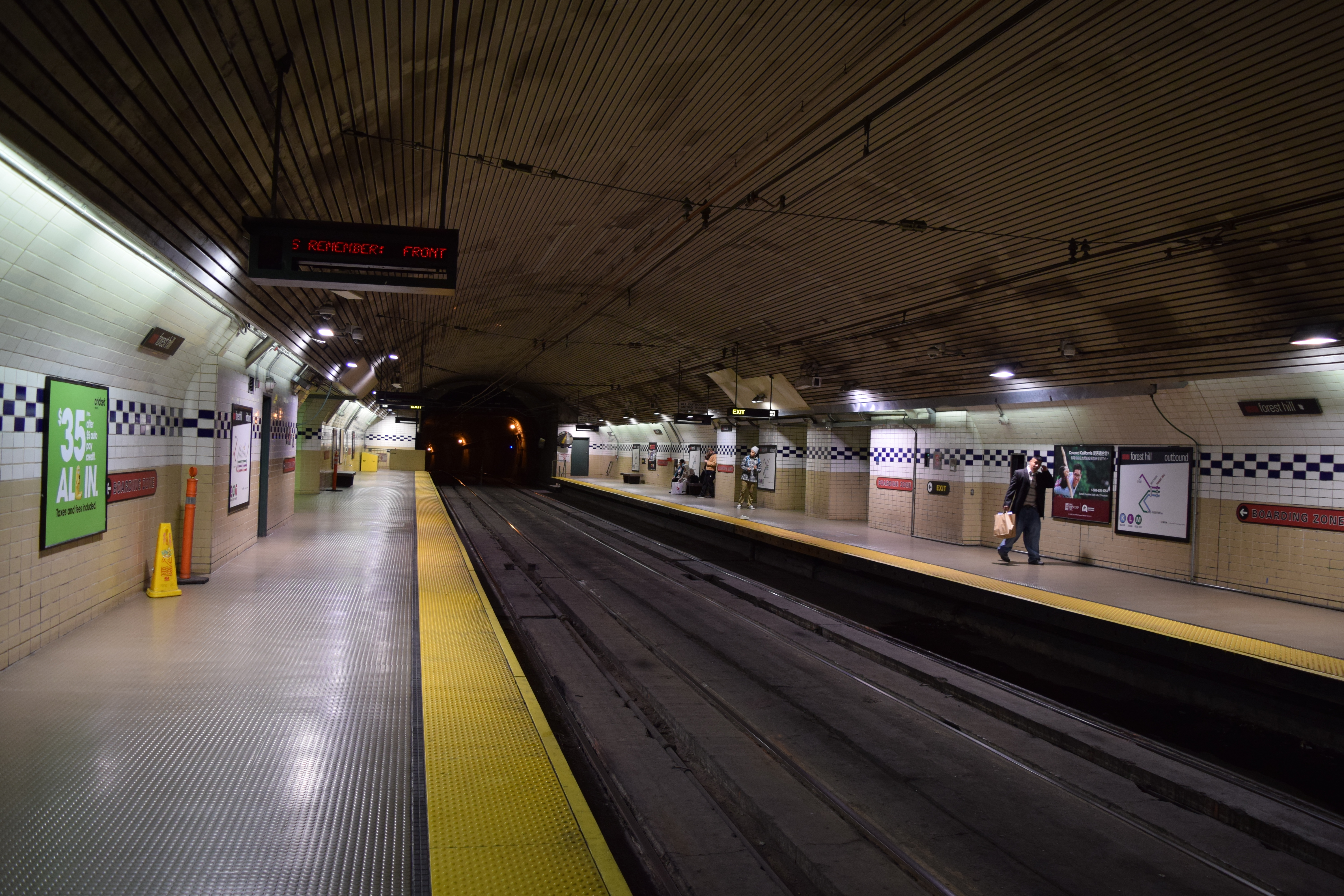 Interior of the station, looking in the outbound (uptown) direction